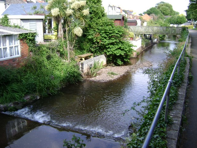 Dawlish Water and the rear of Brook Street, Dawlish Dawlish Water flows through Dawlish, more or less in a straight line, down a series of shallow weirs. Another Cabbage Palm (Cordyline australis) is in full flower in the garden of a Brook Street property.